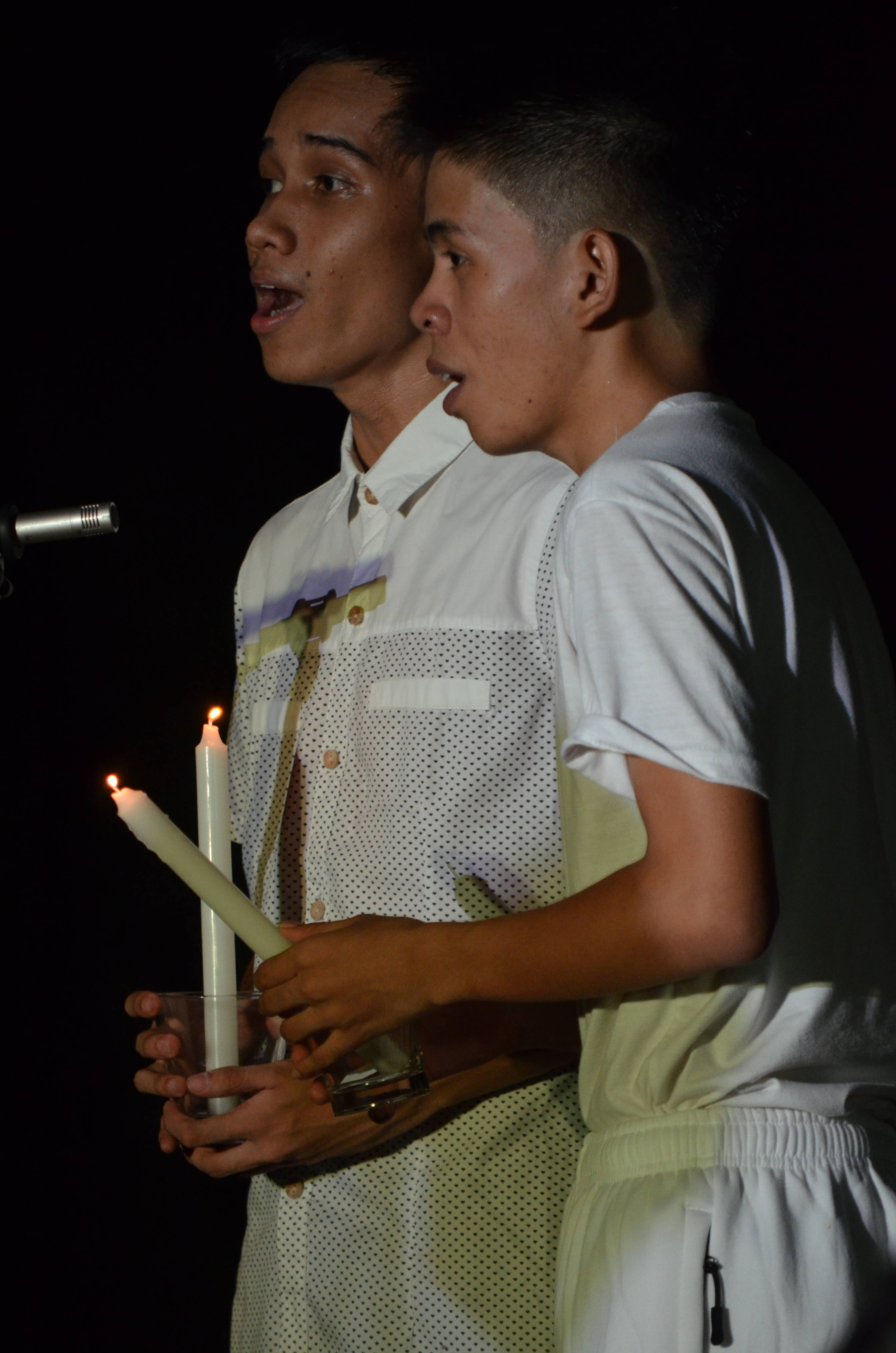 Performance during the staging of Lunop han Dughan at University of the Philippines Visayas Tacloban College in 2019